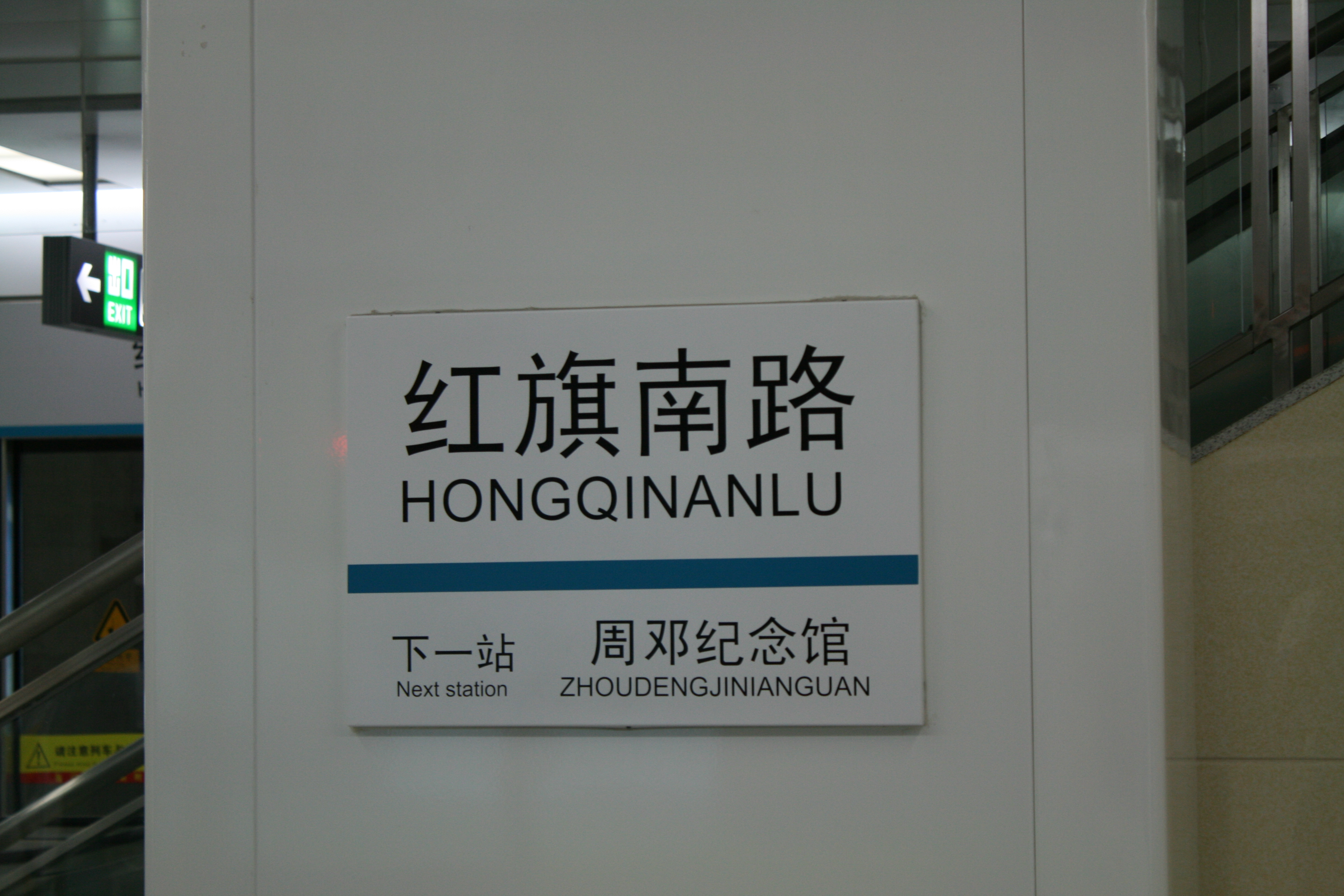 tianjin metro line 3 the HONGQINANLU Station ...0001